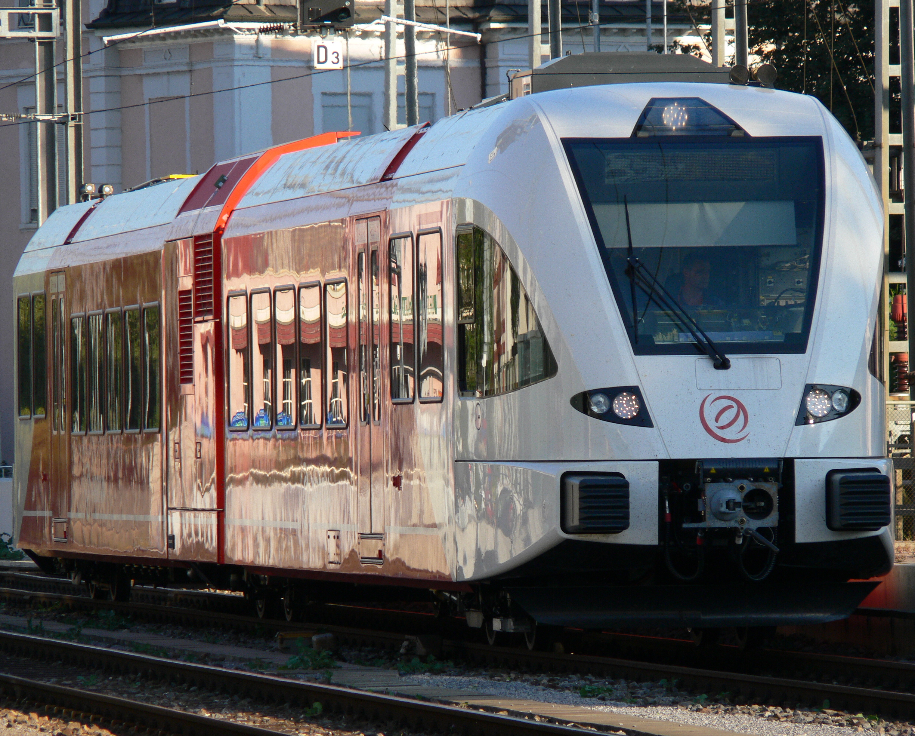 Arriva GTW 2/6 testtrain in Weinfelden.